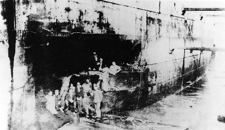 SS Finland (American Passenger Steamship, 1902) In drydock at Brest, France, showing damage received when whe was torpedoed on 28 October 1917. This ship was USS Finland (ID # 4543) in 1918-1919. Courtesy of Captain John P. Cummings, USNR (Dental Corps), Retired. U.S. Naval Historical Center Photograph.